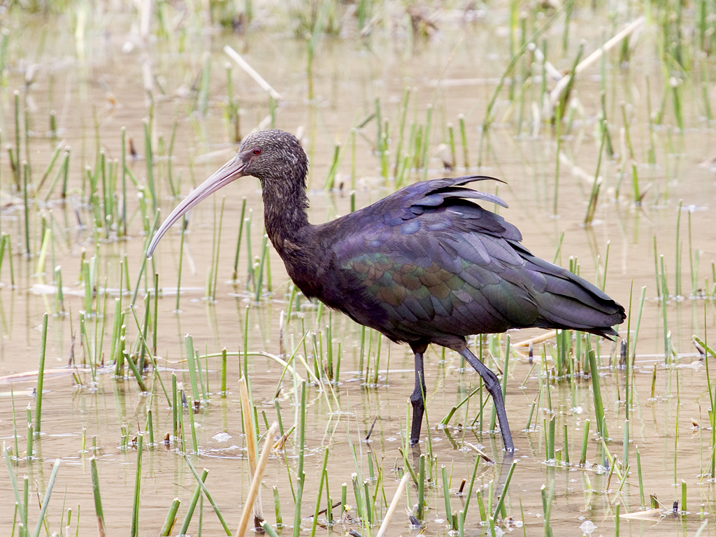 A Puna Ibis at Huacarpay Lakes, near Cusco, Peru.